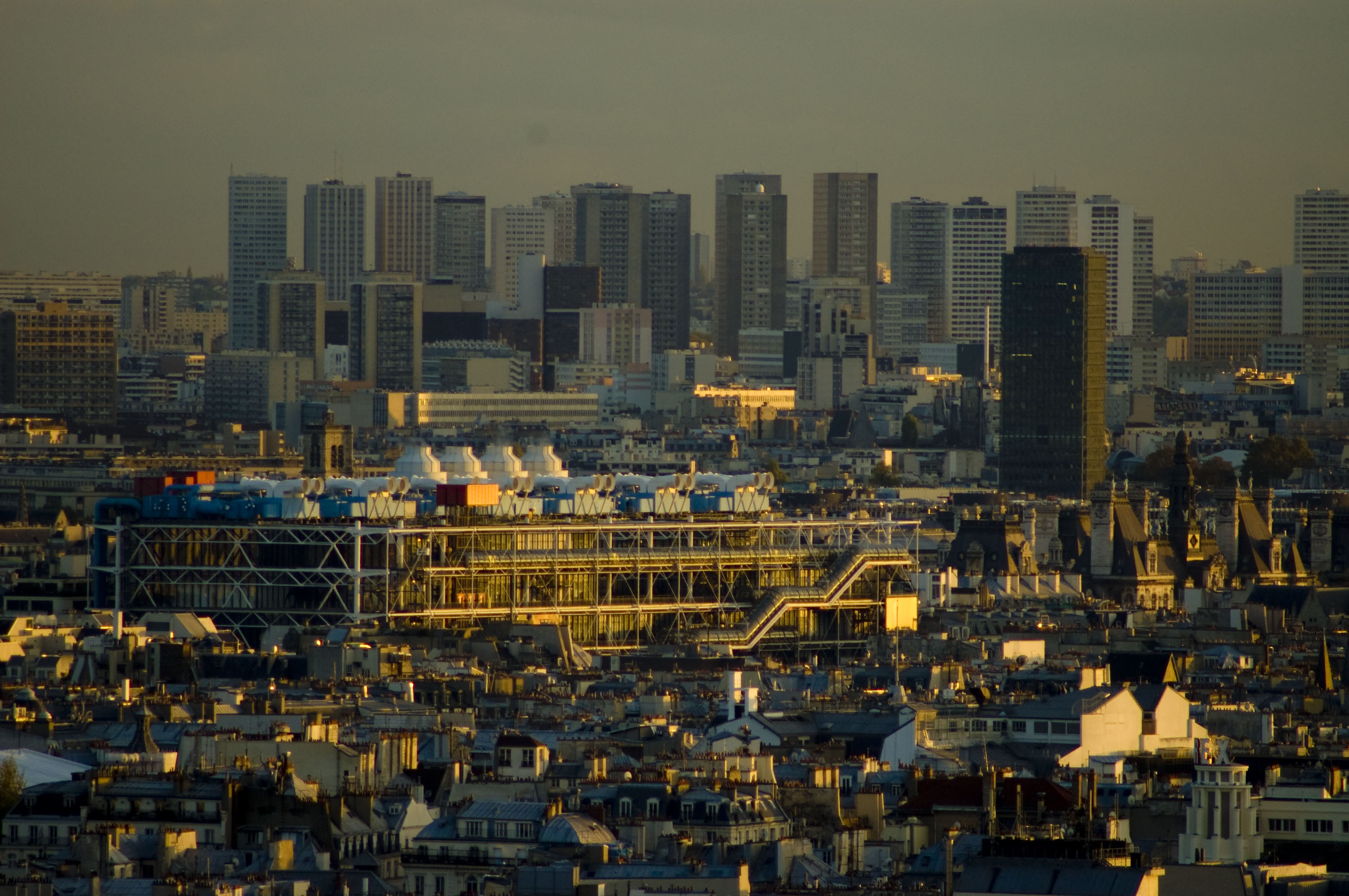 Centre Pompidou in Paris, France: Taken from Sacre Coeur Basilica on Montmartre at sunset in November.